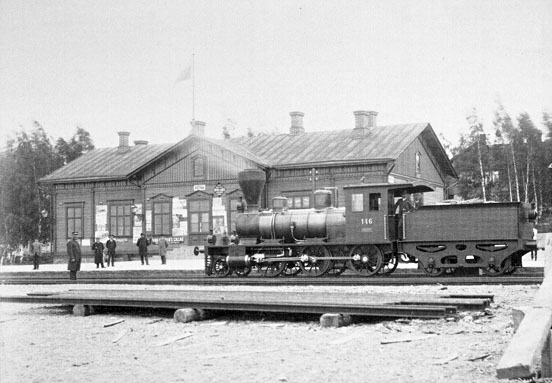 A VR Class G1 (Sk1 since 1942) steam locomotive no. 146 at Kotka railway station in Kotka, Finland.